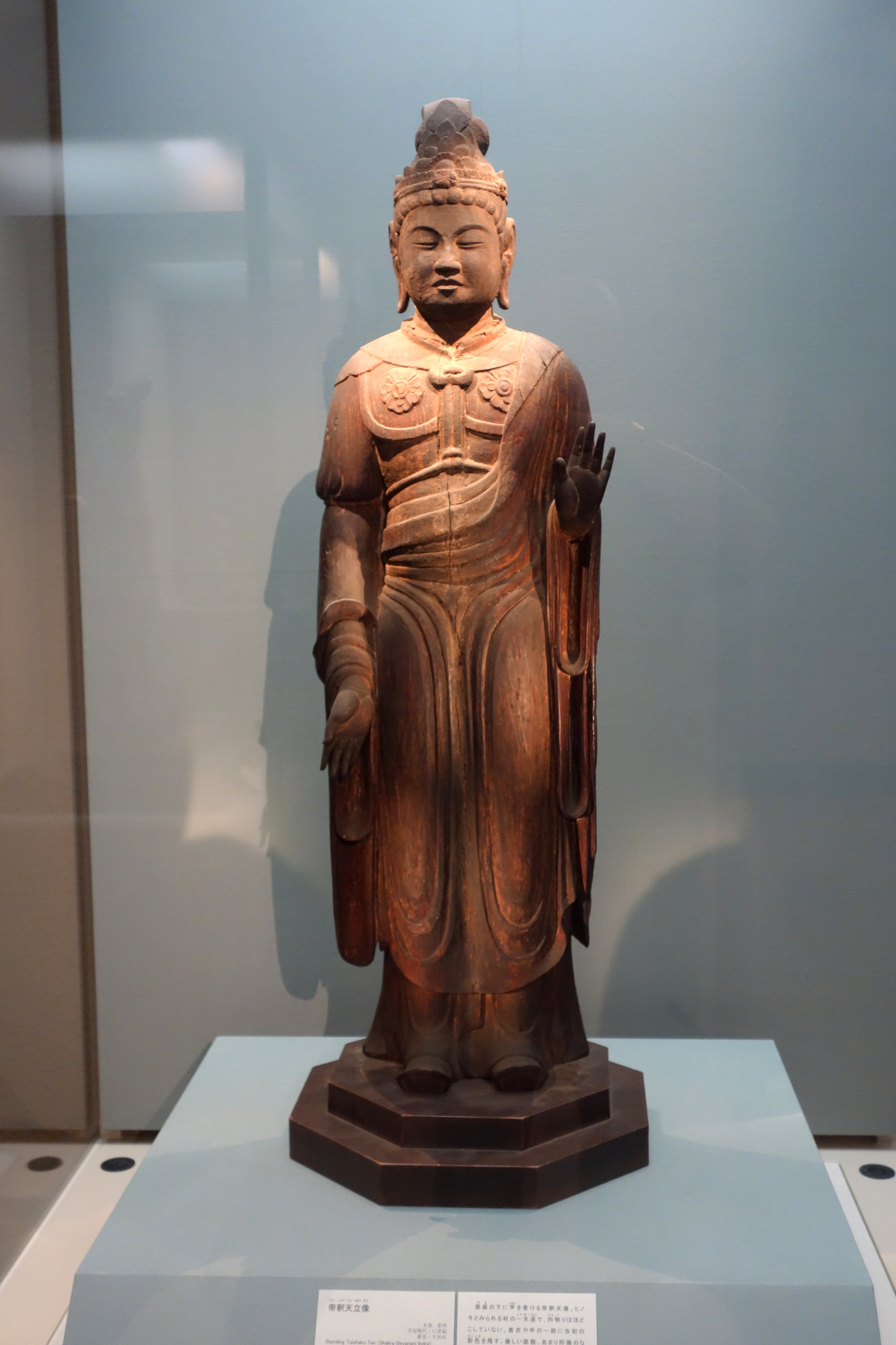 Exhibit in the Tokyo National Museum, Tokyo, Japan. This artwork is old enough so that it is in the public domain.